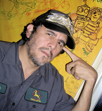 Guillermo Fadanelli